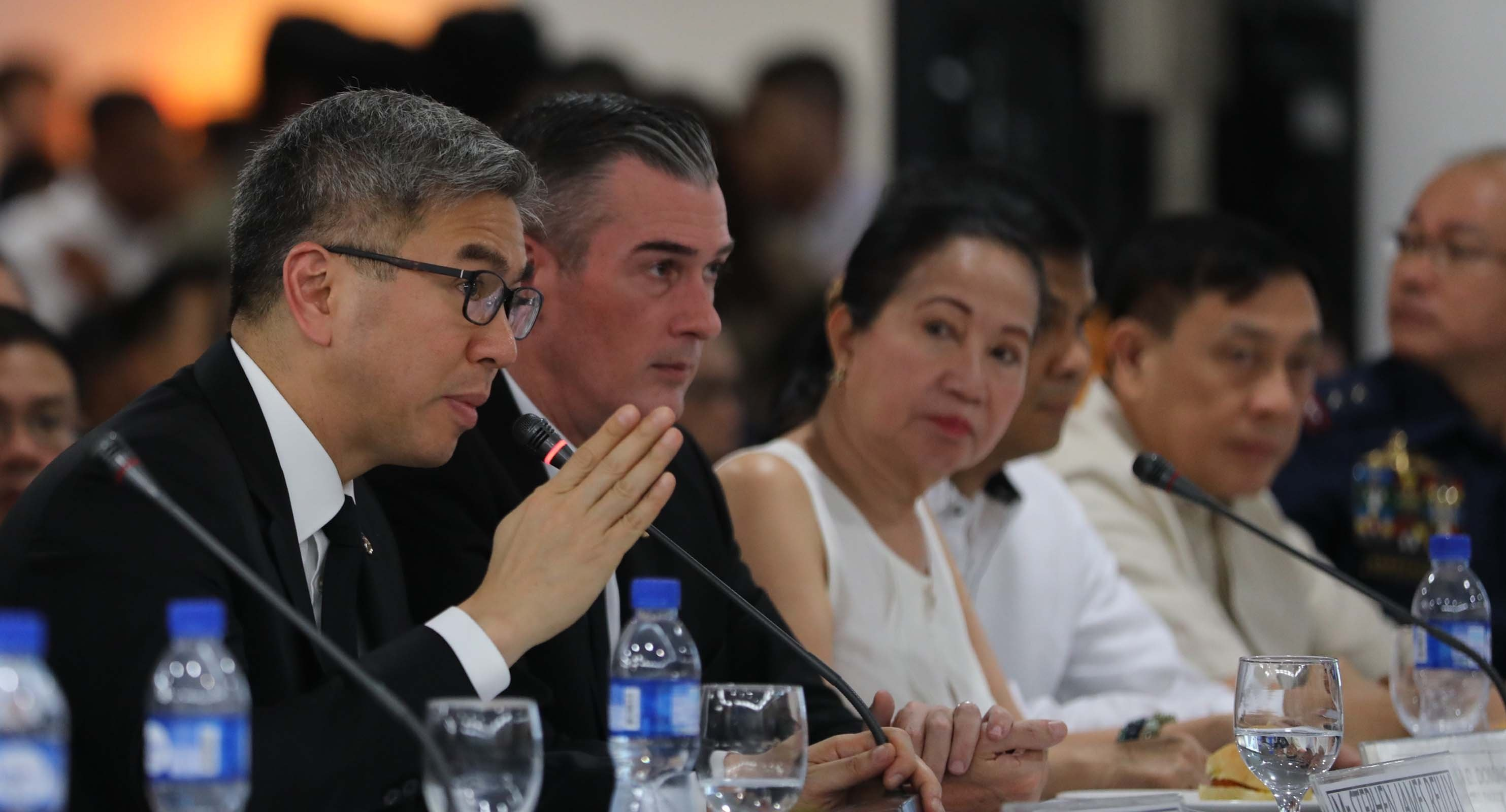 Resorts World Manila president Kingson Sian (left) is queried by House Speaker Pantaleon Alvarez (not in the photo) during the Congressional hearing on the Resorts World incident held at the Ninoy Aquino International Airport Terminal 3 in Pasay City on Wednesday (June 7, 2017). The June 3 incident resulted in the death of 37 employees and guests from suffocation after an unstable suspect burned gaming tables and committed suicide after setting himself on fire. Also in photo (from left) are Resorts World chief operating officer Stephen James Reilly; Philippine Amusement and Gaming Corporation (PAGCOR) Chairperson and CEO Andrea Domingo; Interior and Local Government Undersecretary Catalino Cuy; and Director Oscar Albayalde, chief of the National Capital Region Police Office (NCRPO).